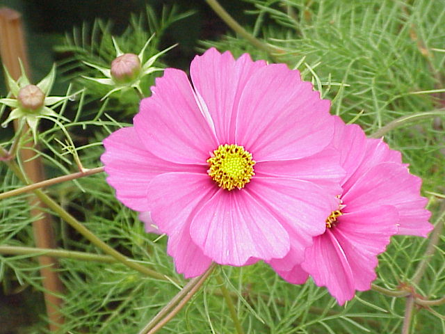 Species: Cosmos bipinnatus Family: Compositae Image No. 4